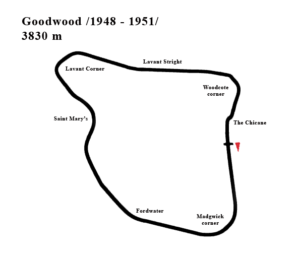 Diagram of the Goodwood Circuit hosted the Richmond Trophy and Goodwood Trophy.